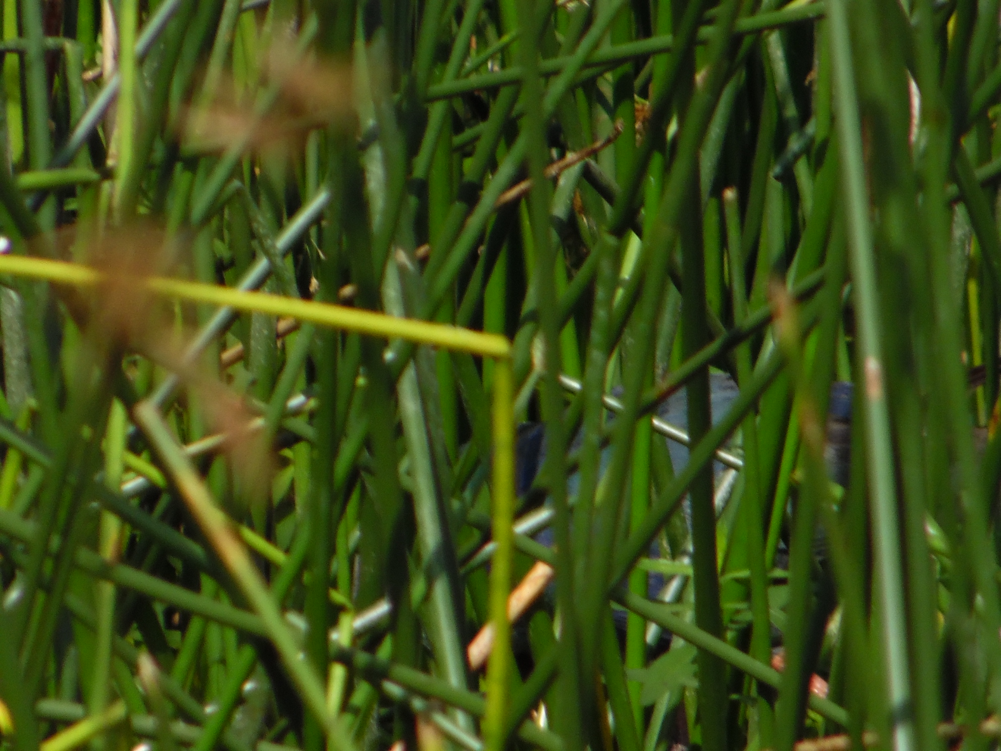 by Irvin calicut . marsh reed and hidden purple moore hen